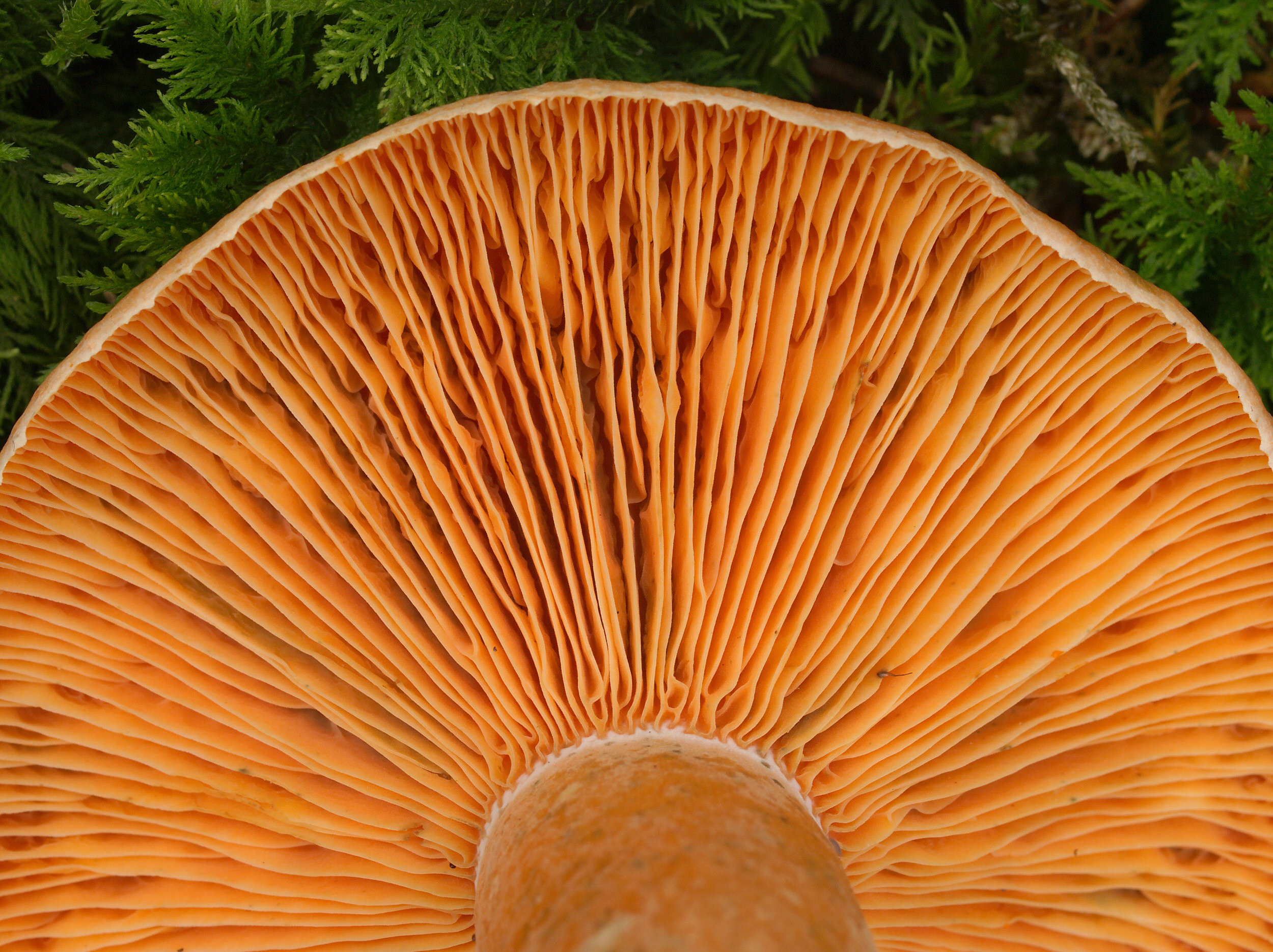 False Saffron Milkcap (Lactarius deterrimus)